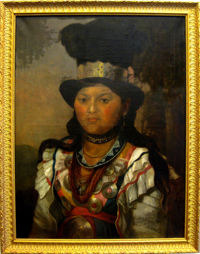 Photo of portrait of Sarah Molasses, a Penobscot woman and daugther of John Neptune and Molly Molasses, oil on canvas, 32-3/4" x 24", painted ca. 1886 by Anna Eliza Hardy (1839-1934), copying an original by Jeremiah Pearson Hardy (1800-1887). This painting is in the collection of the .